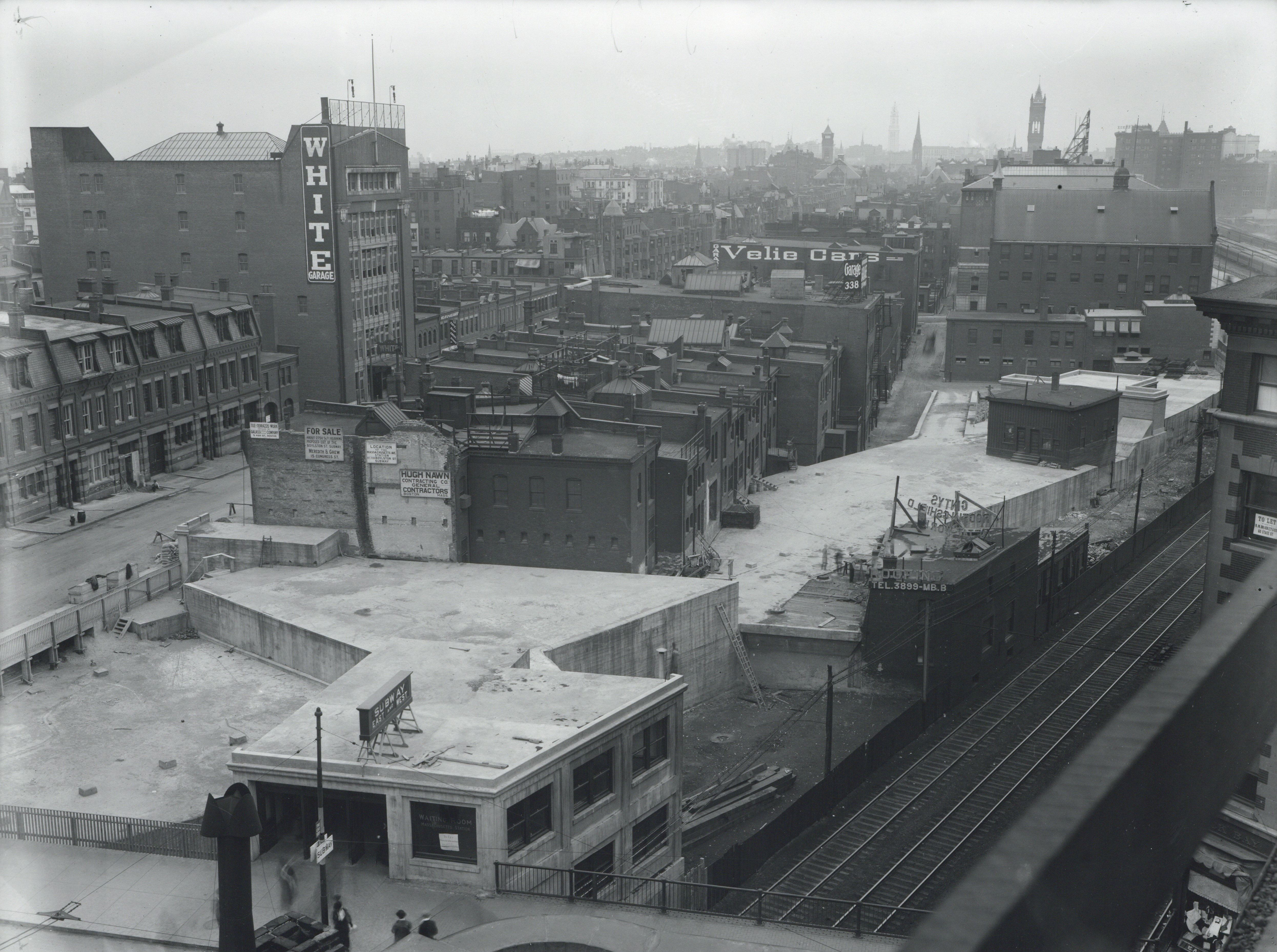 Massachusetts station under construction around 1914, viewed looking east from Massachusetts Avenue